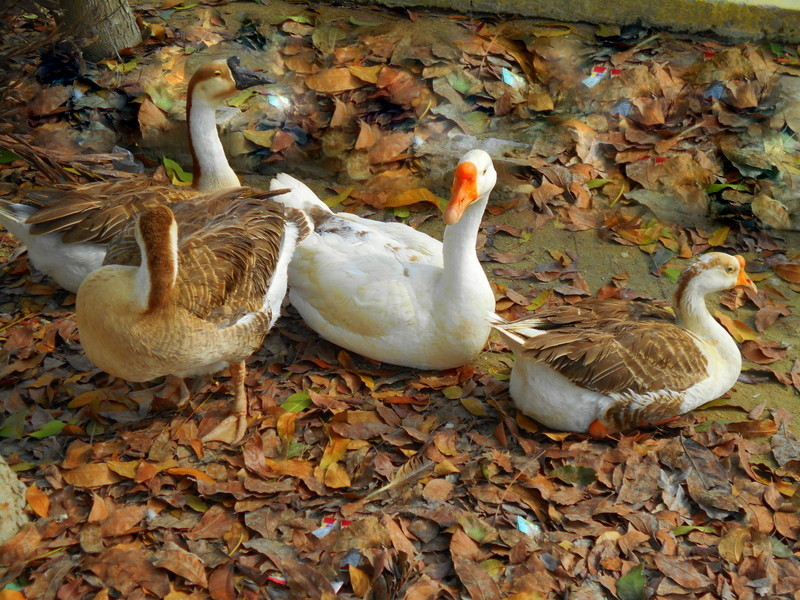 Alipore zoo in Kolkata